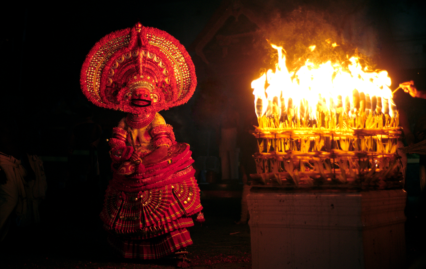 Kathivanoor Veeran theyyam performing . A bunch of torches seen enlighten on a stone block which is known as Chemmarathi Thara which depicts Chemmarathi , the widow of the protagonist.